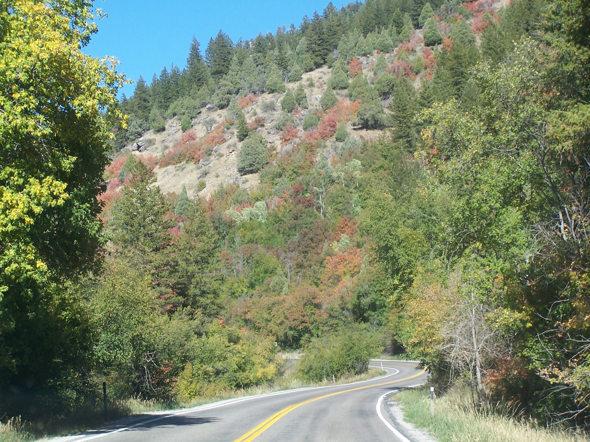 Photo of Logan Scenic Byway